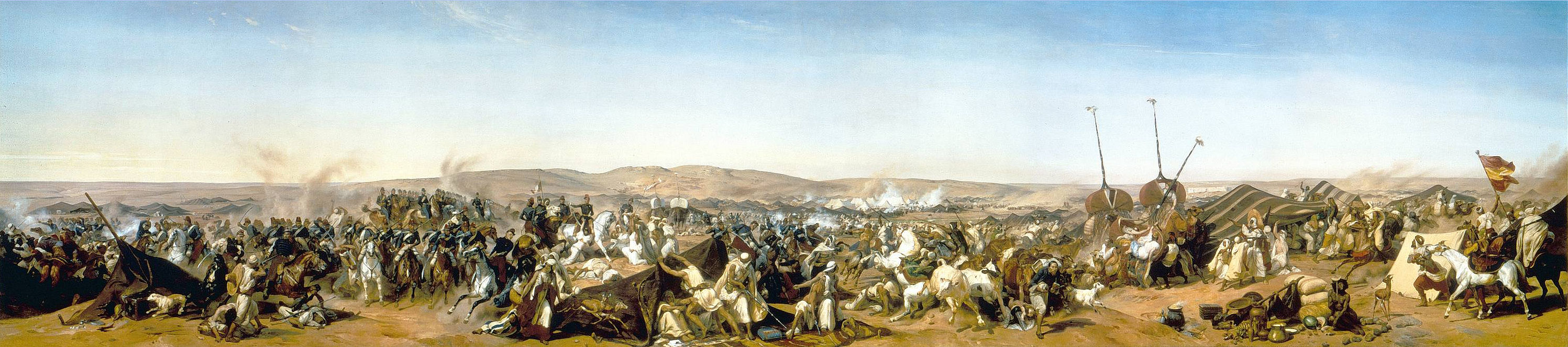 Oil painting depicting the 1843 French capture of Abd al-Qadir's encampment, or smala, during the French conquest of Algeria. See Battle of the Smala.